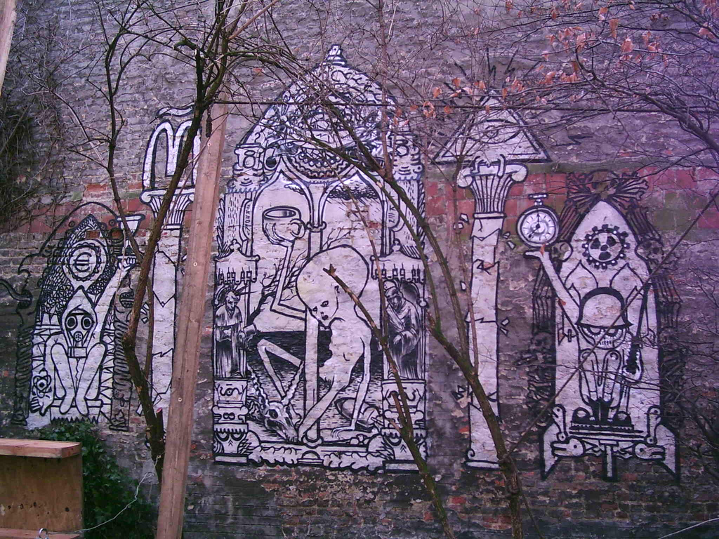 Mural on the outside of the squat 'Villa Squattus Dei' (Leuven). This triptych refers to anarchistic ideology.